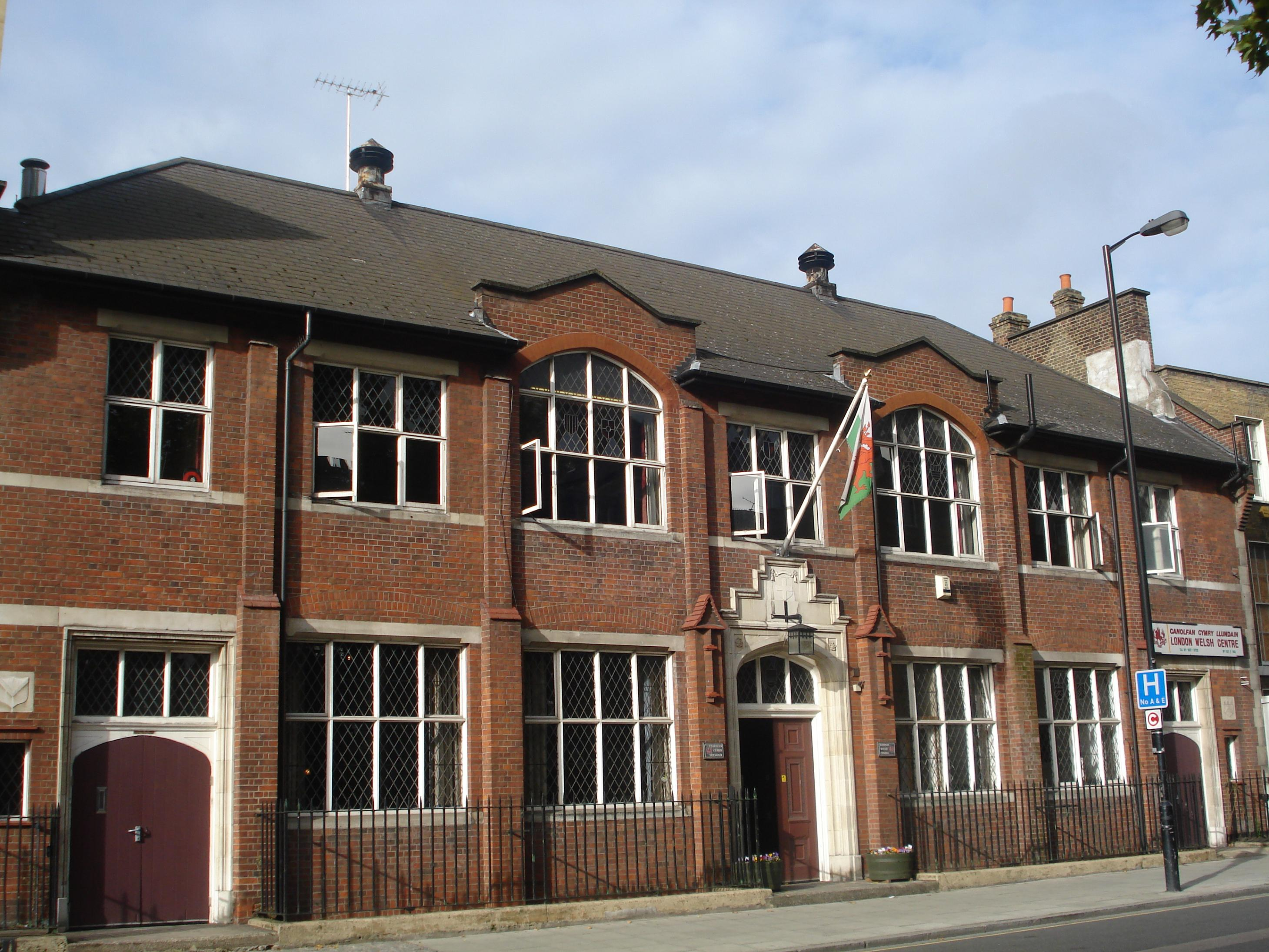 A photo of the front of the London Welsh Centre from Gray's Inn Road